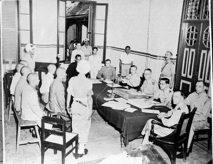 Japanese war criminals facing a court in Makassar